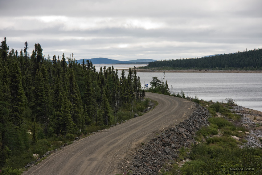 Caniapiscau Reservoir seen from Transtaïga Road